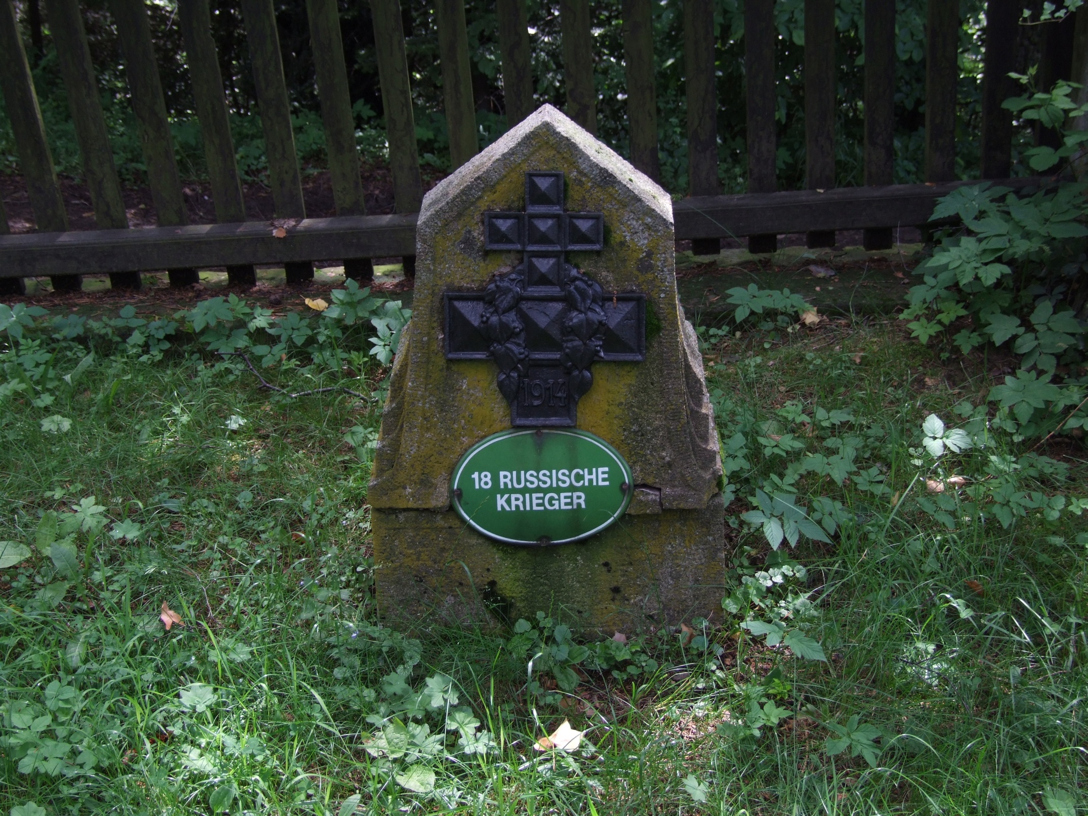 World War I Cemetery in Kamionka Mała (Nr 357)